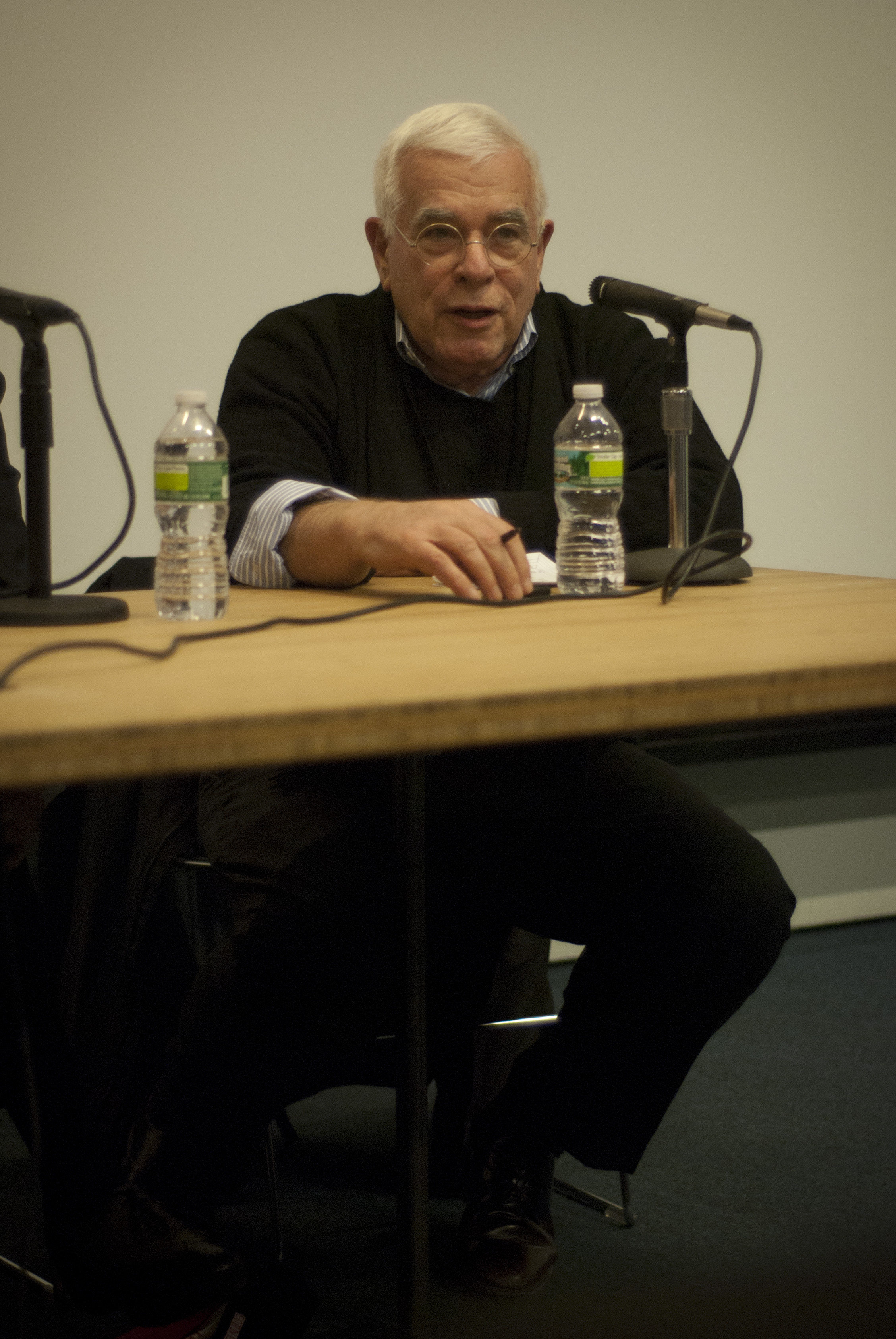 What happened to the architectural manifesto?